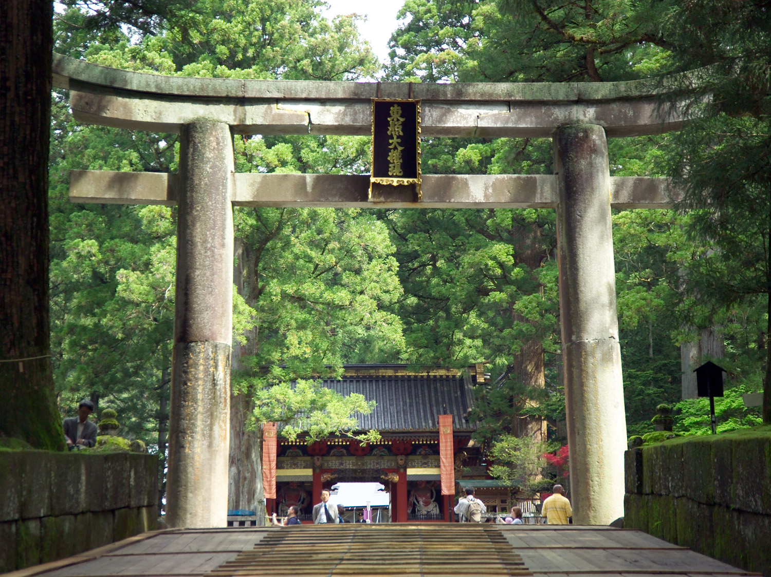 This photograph shows the First Torii, Ichi no Torii, at Toshogu, Nikko, Tochigi Prefecture, Japan, a UNESCO World Heritage Site. This is the view from outside the shrine. Beyond the torii is a five-story pagoda (not visible, to the left). Ahead is the Outer Gate (Omotemon), with the statues of the guardian gods left and right (visible). I took the photo and contribute the file to the public domain. However, people and institutions may retain rights to images in it.